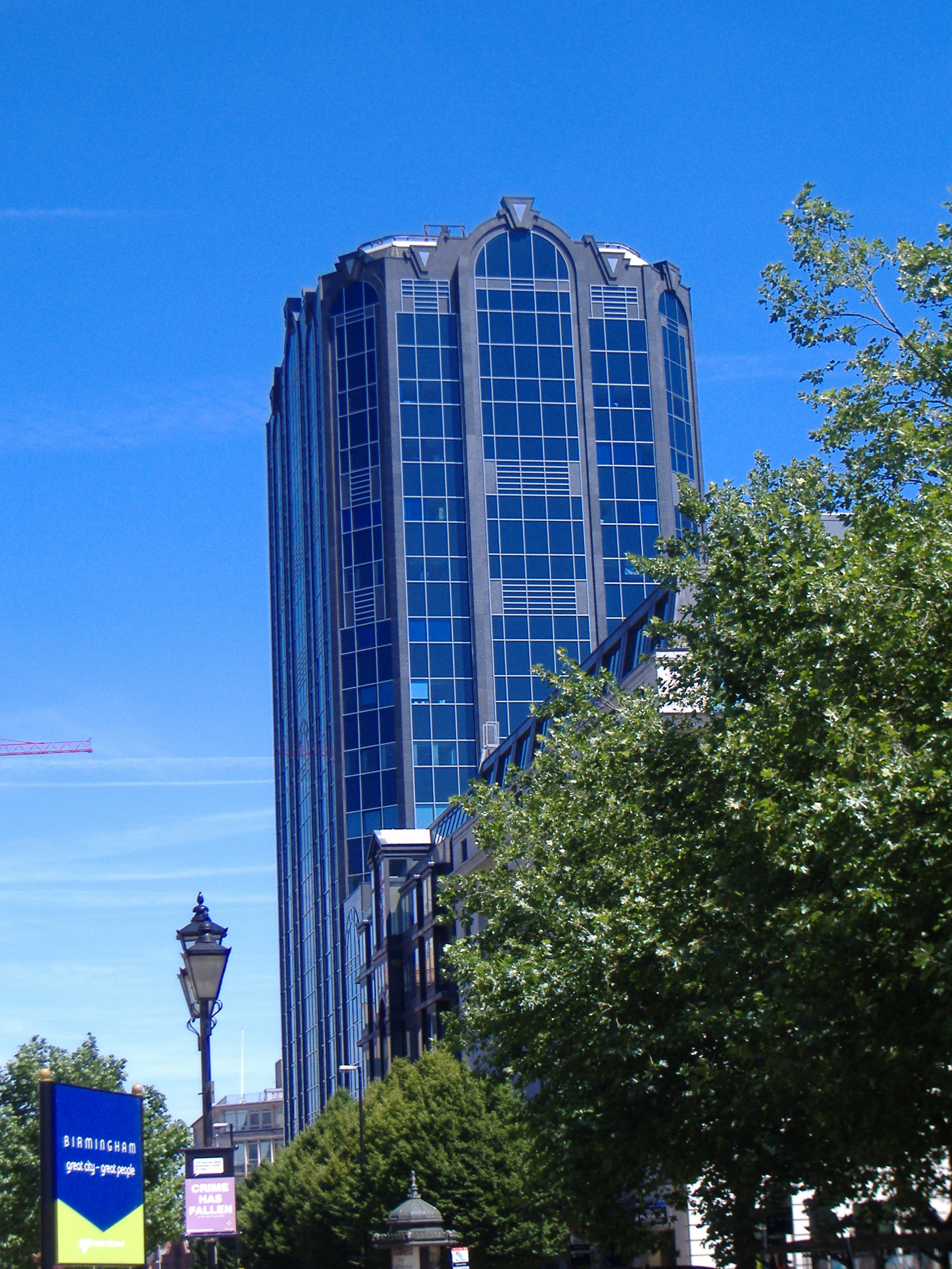 Colmore Gate/ Tower in Birmingham. England, UK.